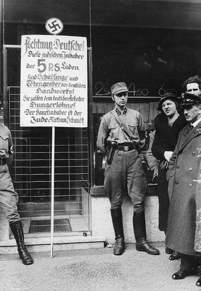 Members of the SA in front of a Jewish shop during the boycott of Jews in Nazi-Germany on April 1, 1933. The sign says: "Germans, Attention! This shop is owned by Jews. Jews damage the German economy and pay their German employees starvation wages. The main owner is the Jew Nathan Schmidt."